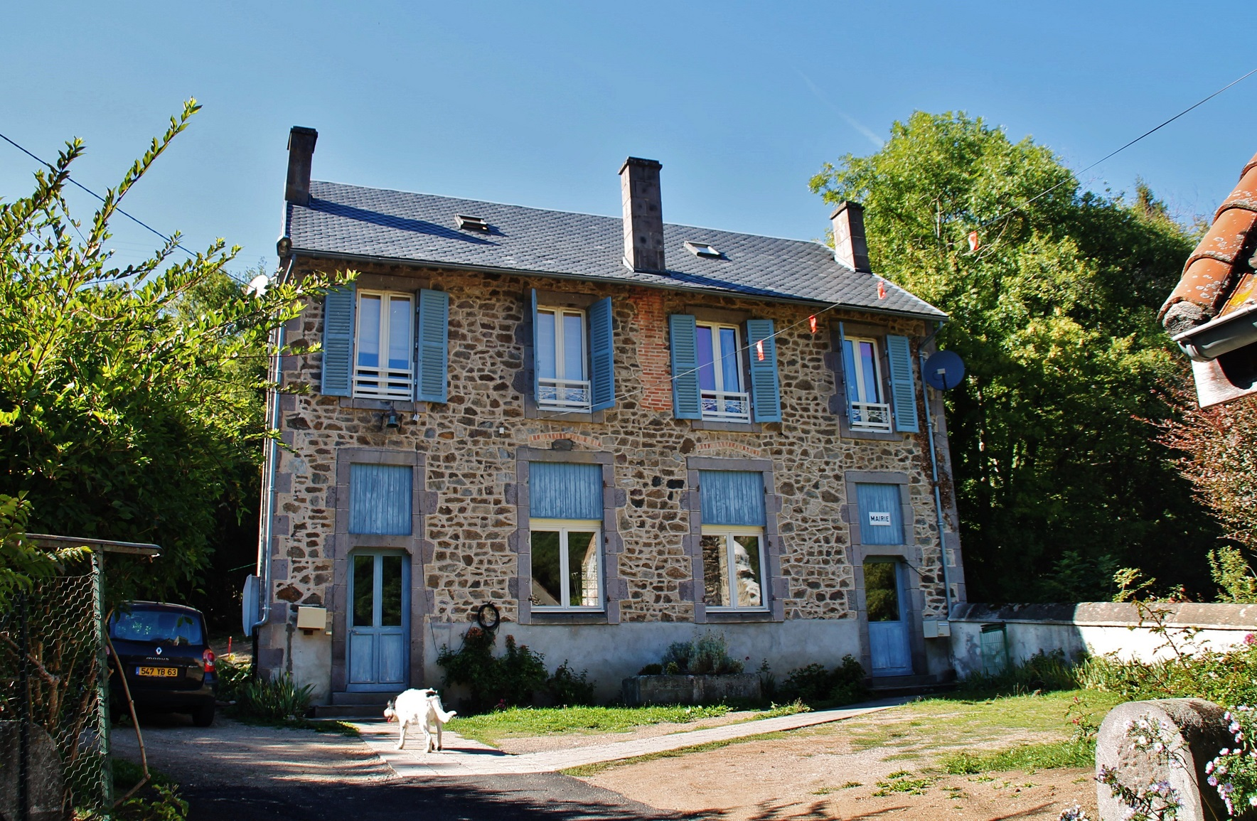 La Mairie